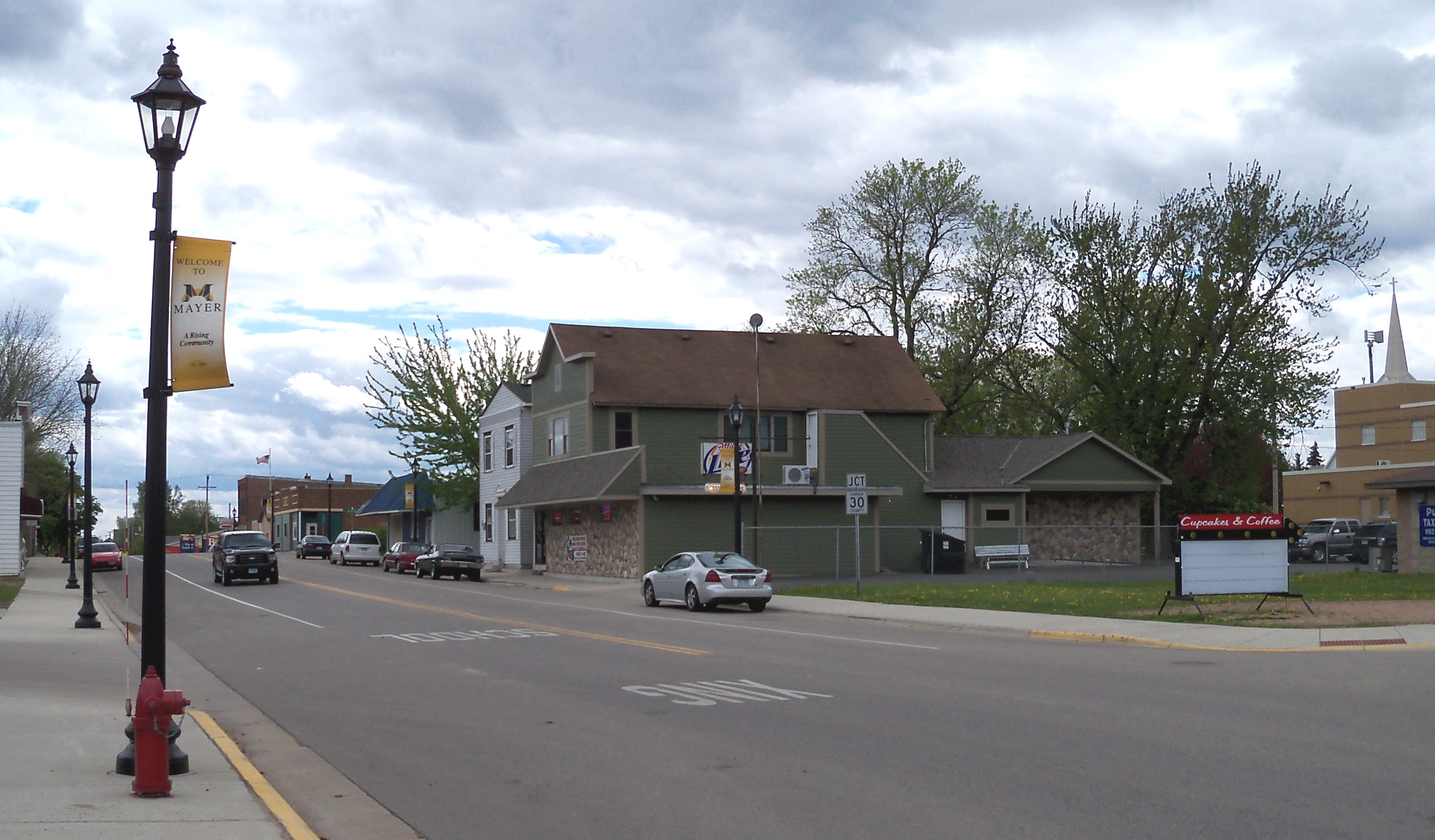 Downtown Mayer, Minnesota, USA.